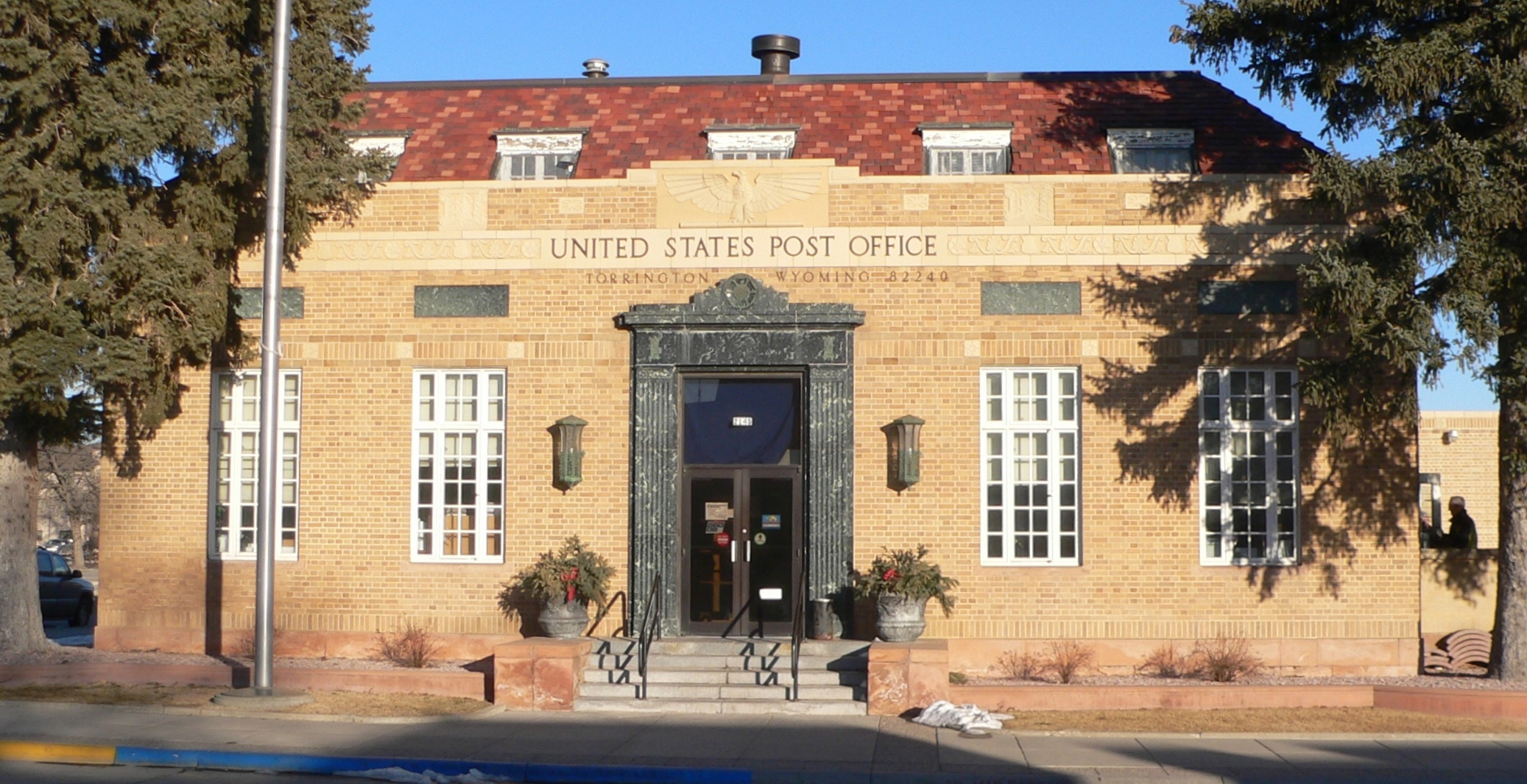 Post office, located at 2145 Main Street in Torrington, Wyoming; seen from the west.